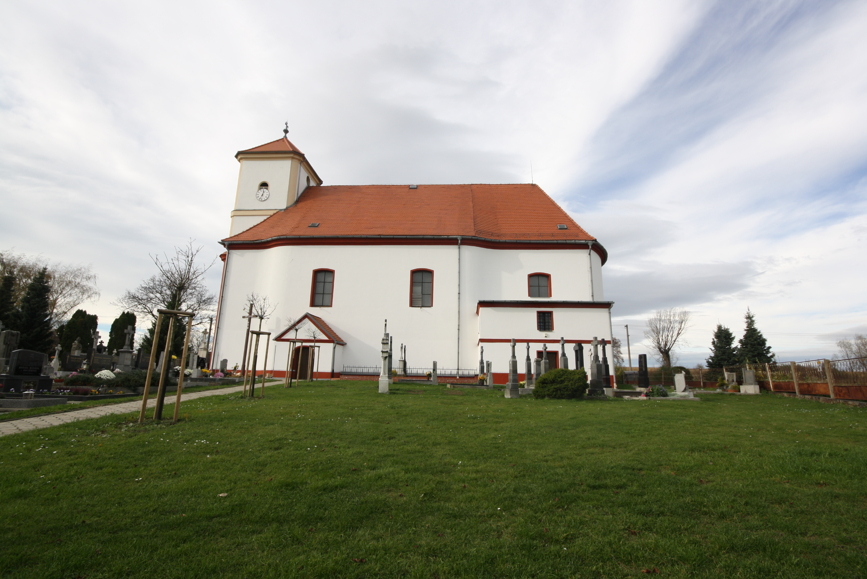 Třebom (Opava disctrict, Czech Republic)